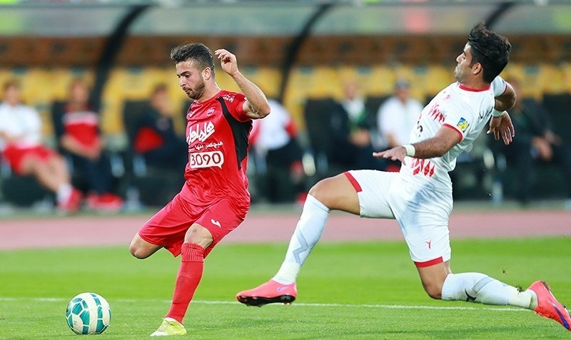 Persepolis-Padideh match, 2016-17 season, Azadi Stadium